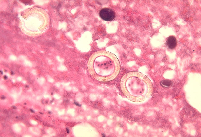 ID#: 604 Description: Histopathology of Taenia saginata in appendix. Histopathology of Taenia saginata in appendix. Parasite. Content Providers(s): CDC Creation Date: 1971 Copyright Restrictions: None - This image is in the public domain and thus free of any copyright restrictions. As a matter of courtesy we request that the content provider be credited and notified in any public or private usage of this image.